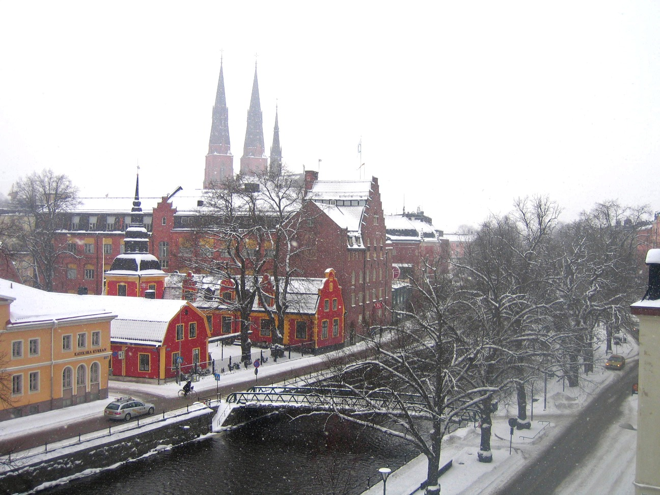 Uppsala, a view of the Fyris river and Västgöta nation (red building). To the left is seen a part of the Catholic church (yellow house).